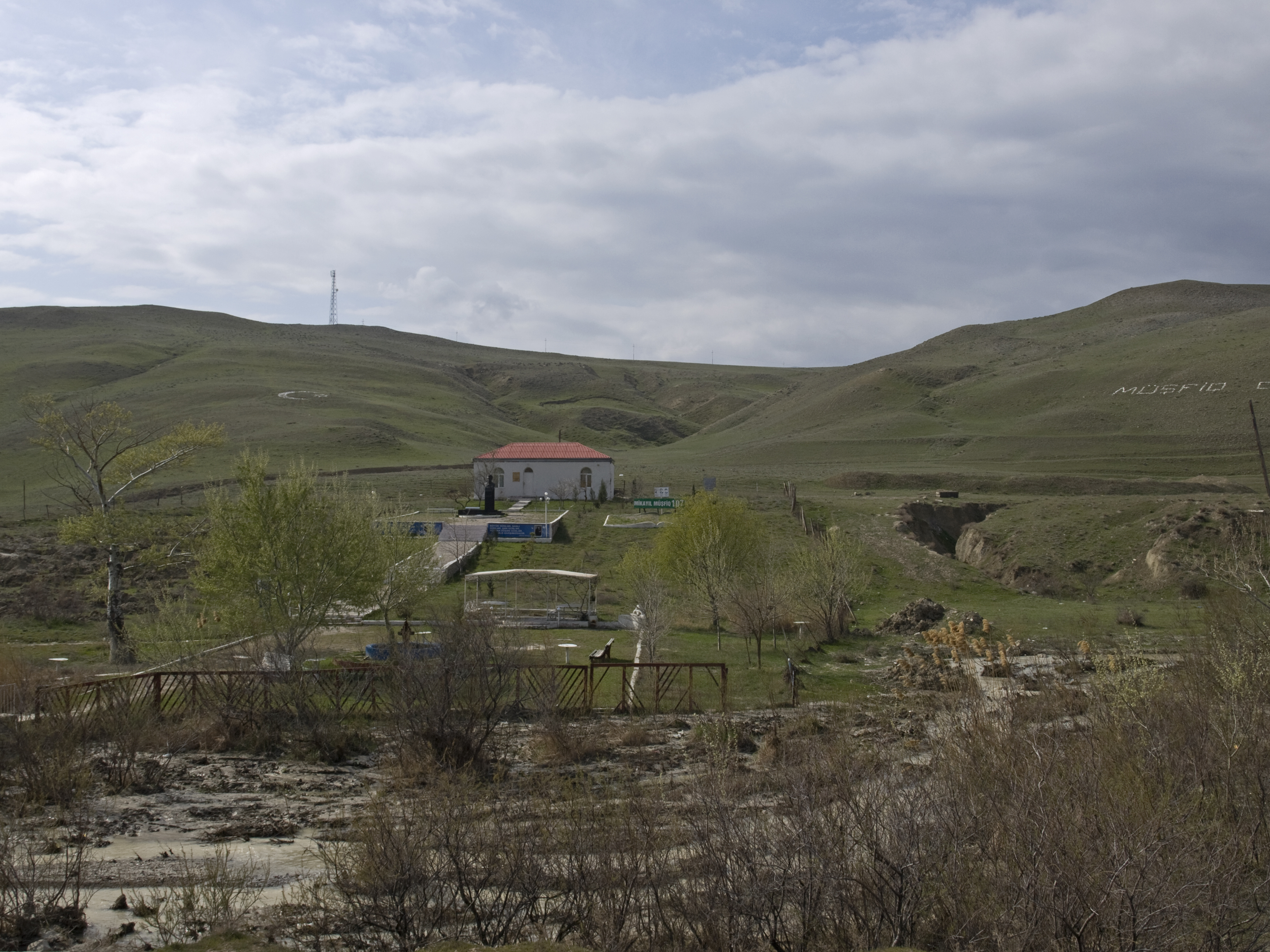 Mikayil Mushfig museum on the road to Xizi